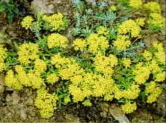 Sicilian botanical endemisms Alyssum nebrodense